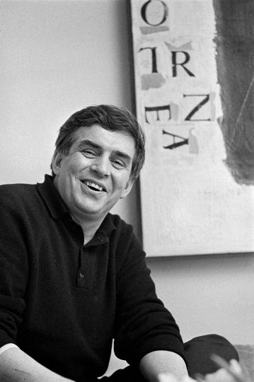 Photograph of the Finnish actor Tarmo Manni (1921–1999) at his home.